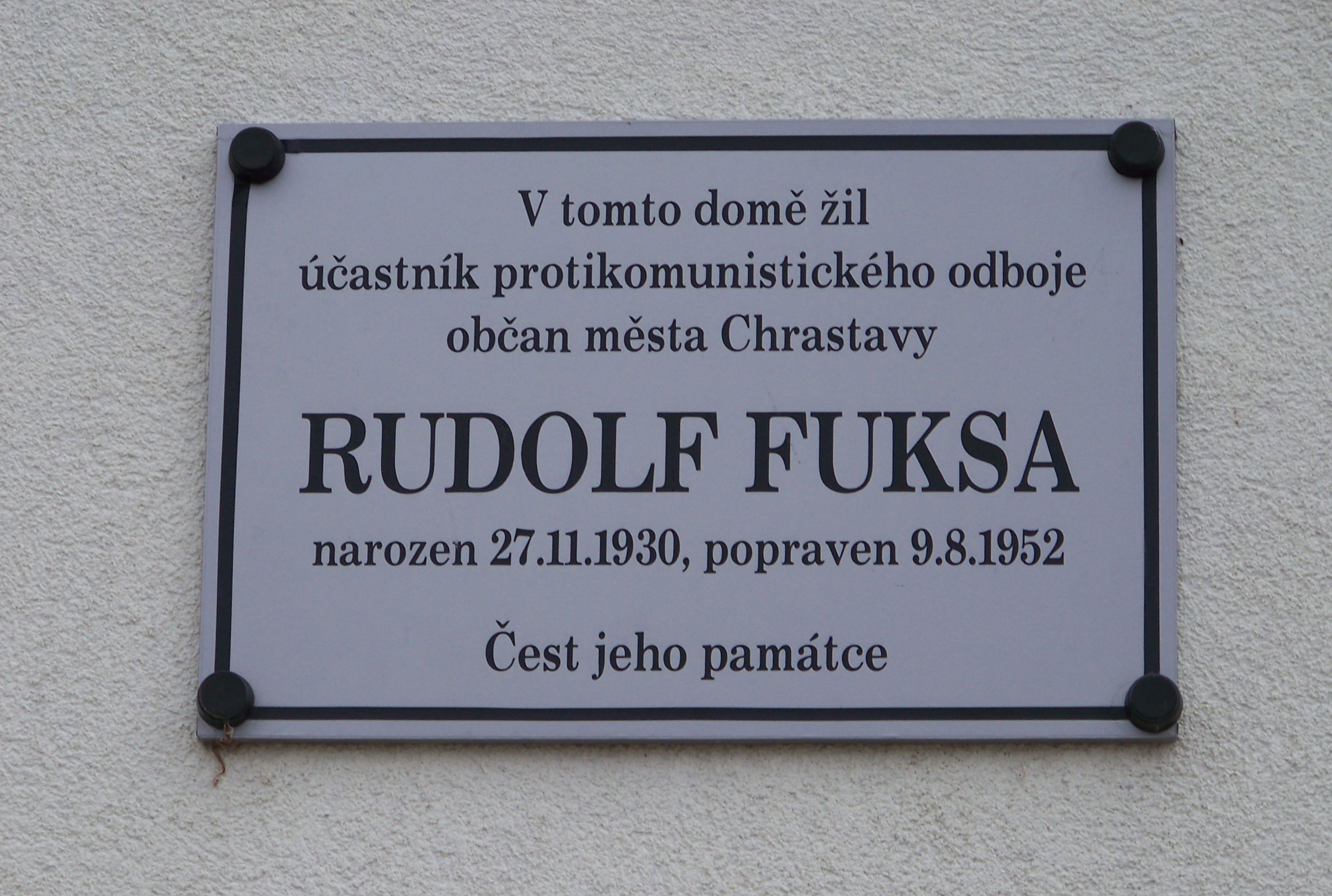 Chrastava-Chrastava I, Liberec District, Liberec Region, Czech Republic. Turpišova 408, a plaque to Rudolf Fuksa. - Google Maps - Google Earth